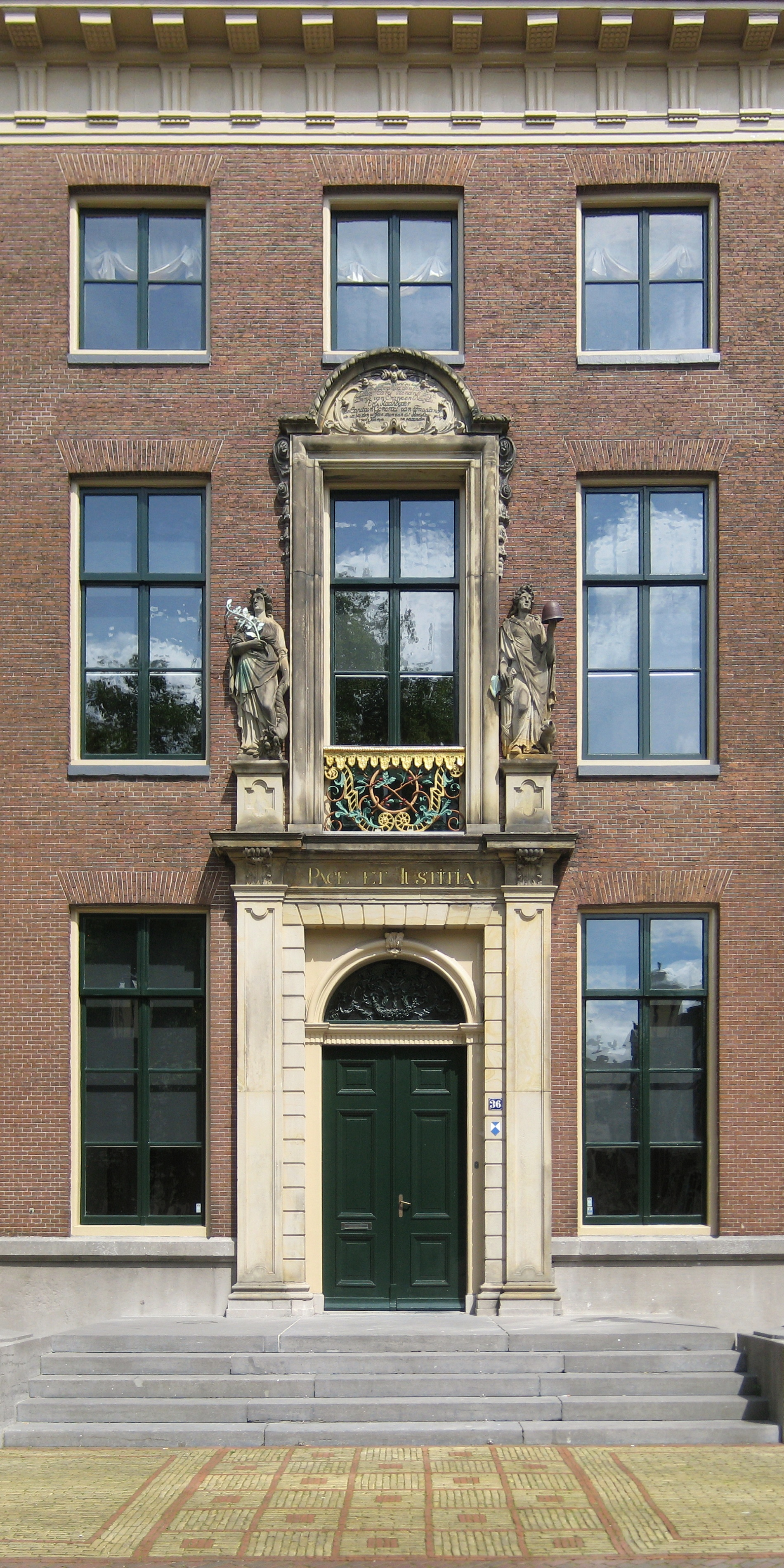 The entrance of the town hall (1713) of Leeuwarden, the capital of the Dutch province of Fryslân.